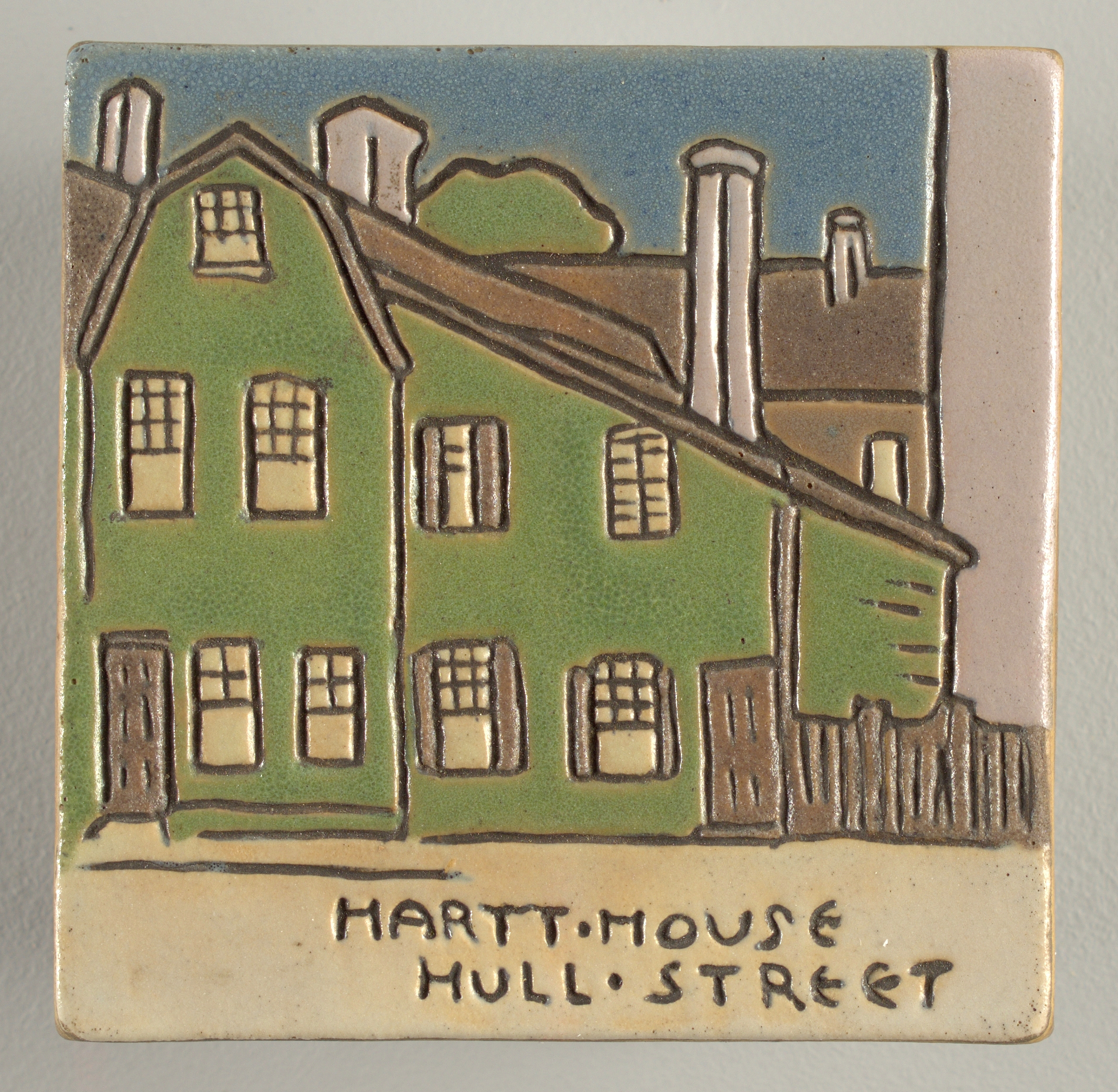 Glazed tile depicting a green three story house in a neighborhood. Underneath the image says: "Hartt House Hull Street".